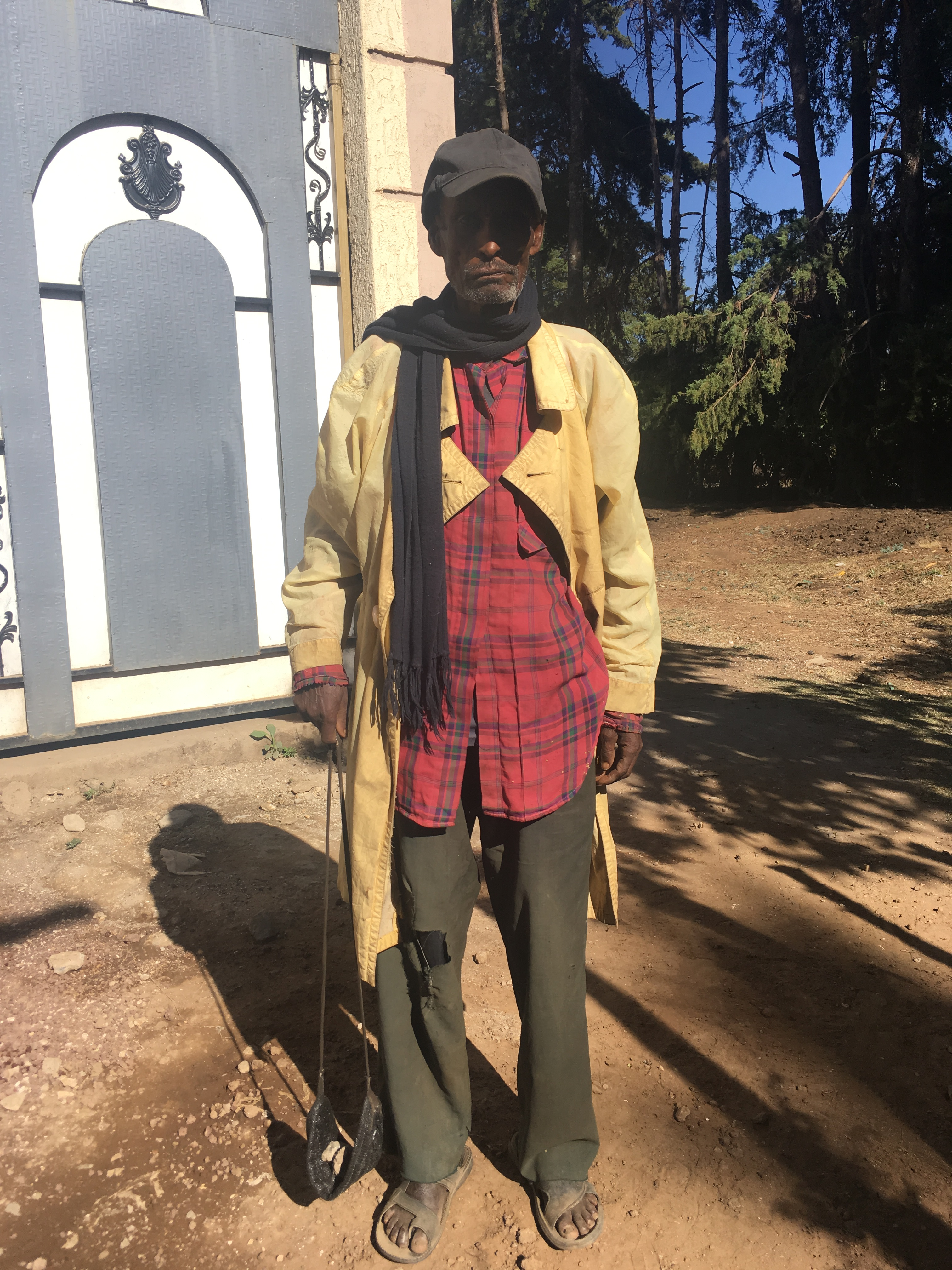 This is an image with the theme "Play" from: Ethiopia